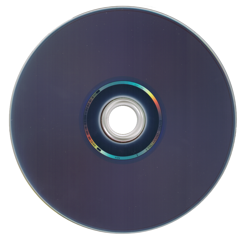 Back of a Blu-ray Disc. I took this.